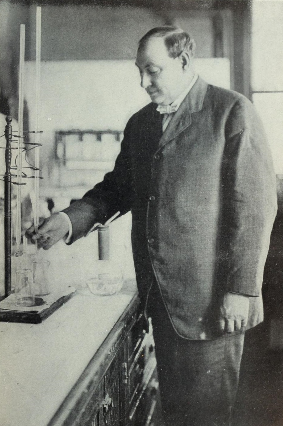 Portrait of Harvey Washington Wiley